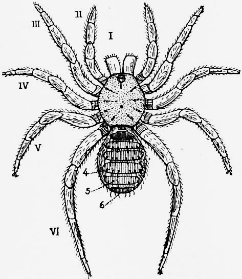 Liphistius desultor, Schiödte, one of the Araneae Mesothelae. Dorsal view. I to VI, the prosomatic appendages; 4, 5, 6, the fourth, fifth and sixth tergites of the opisthosoma. Between the bases of the sixth pair of limbs and behind the prosomatic carapace is seen the tergite of the small prae-genital somite.(Original drawing by Pickard—Cambridge, directed by Pocock.)